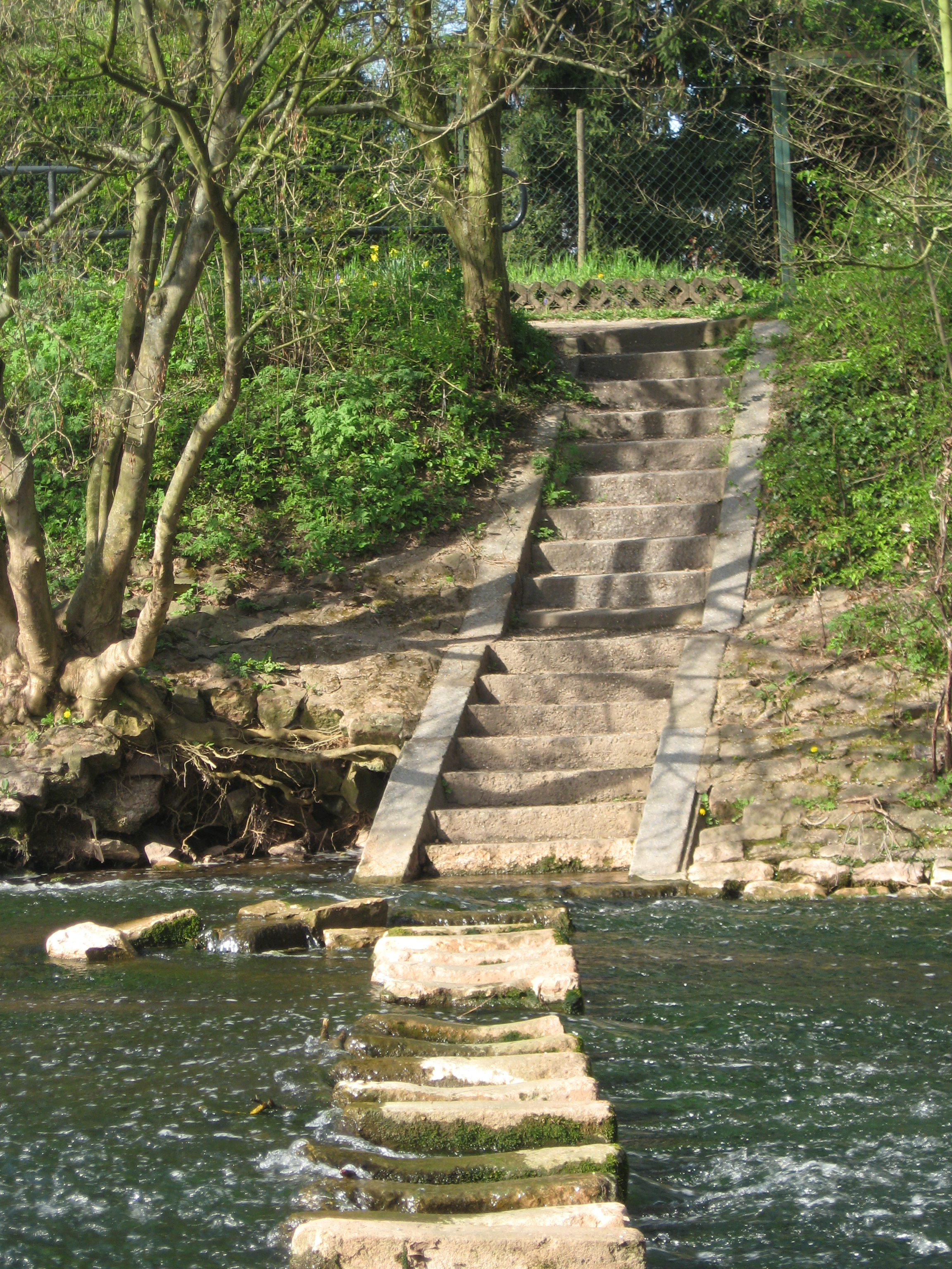 River crossing in Karl-Bittel-Park, Worms, Germany